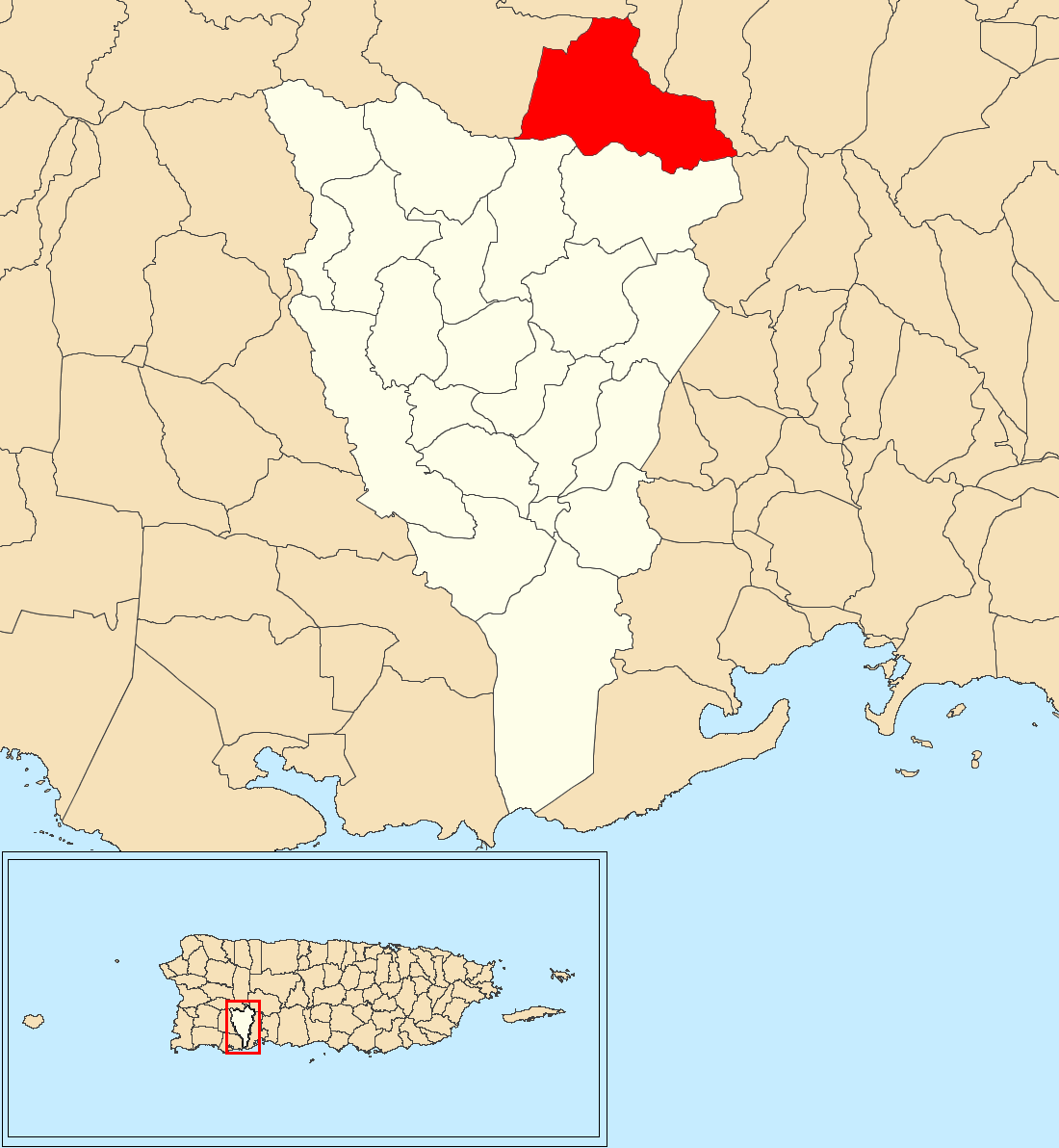 Río Prieto, Yauco, Puerto Rico locator map